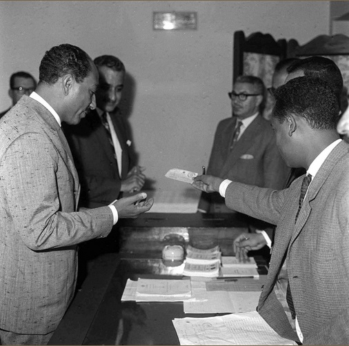 Egyptian President Gamal Abdel Nasser and Vice President Anwar Sadat cast their votes at Alexandria polling station in the 1968 referendum on the March 30 Statement for political reform